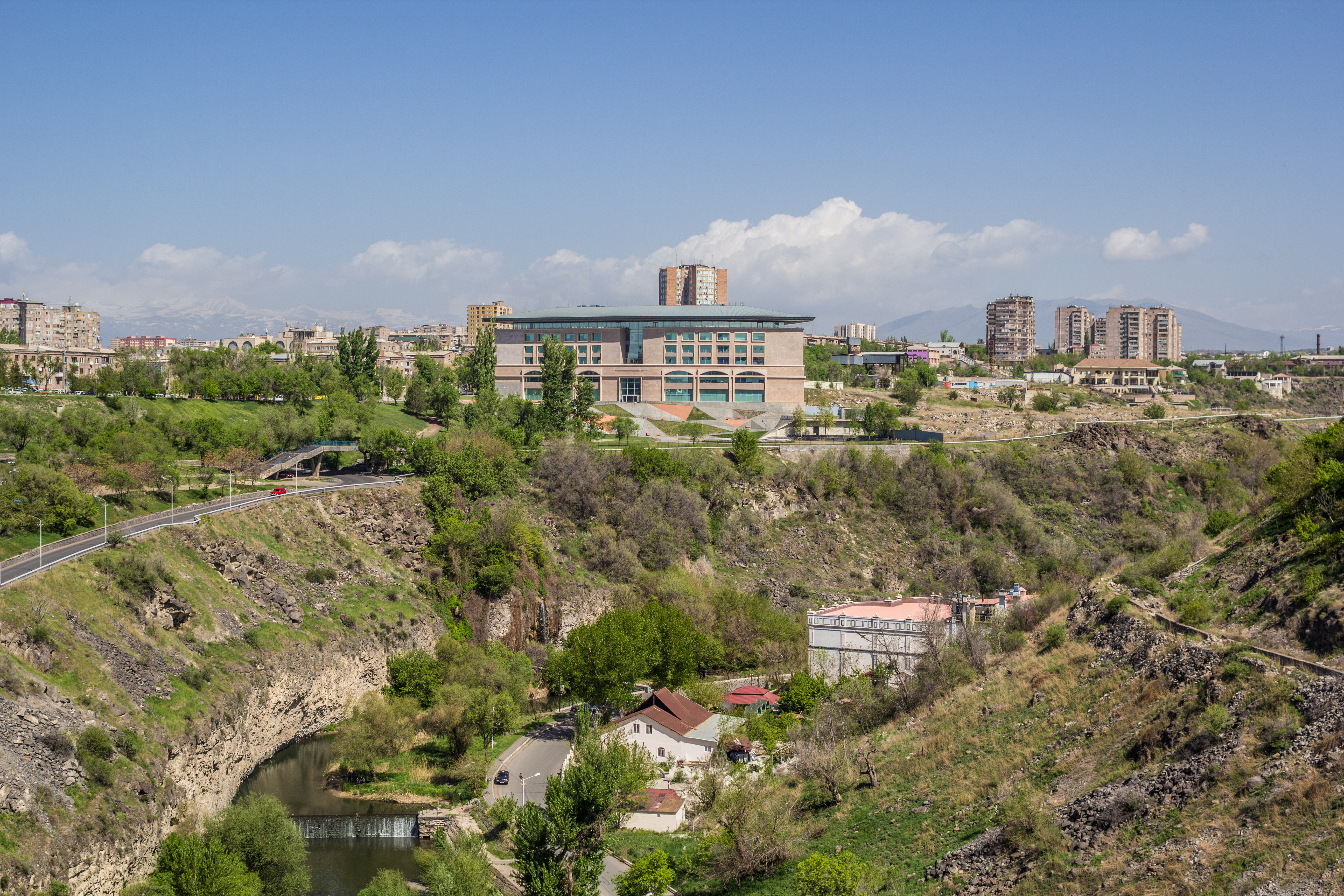 The Tumo Center for Creative Technologies situated along the Hrazdan River Gorge in Yerevan, Armenia. Tumanyan Park is to the left.